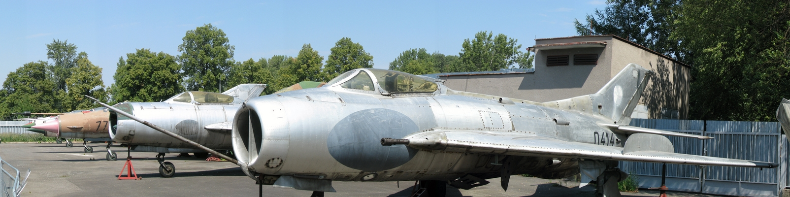 Praha-Kbely Airmuseum. First: MiG-19